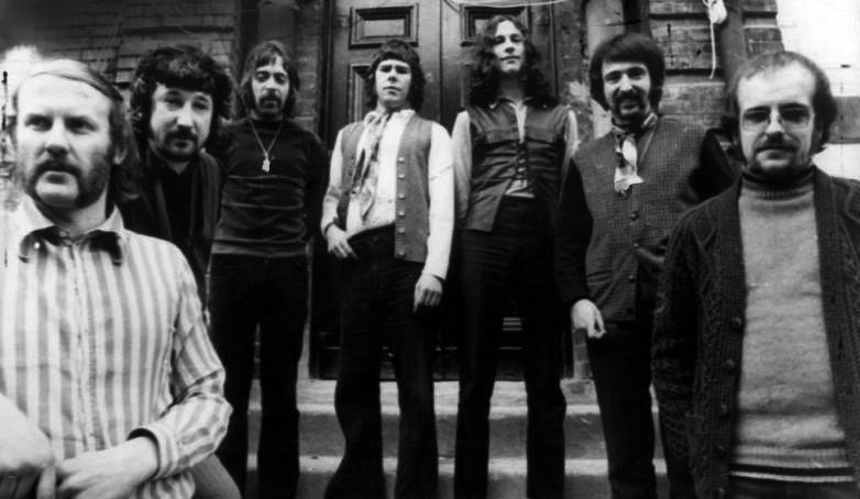 Publicity photo of the musical group If.